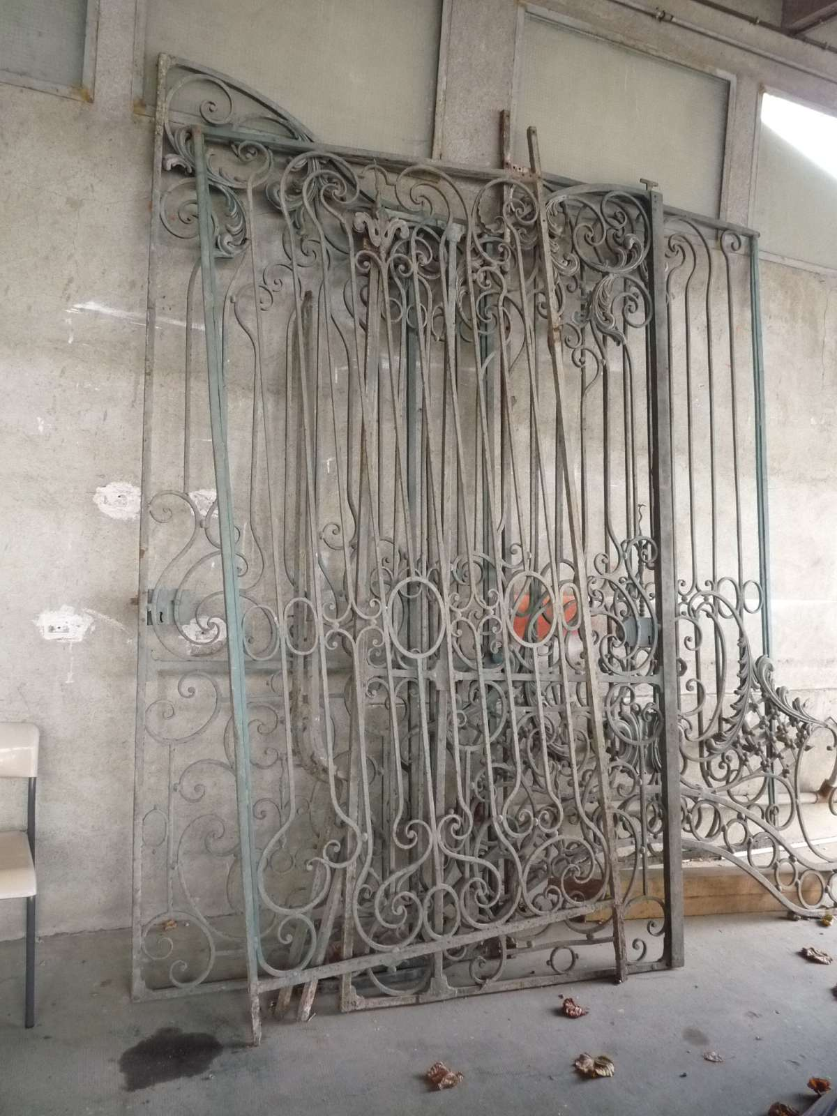 Former iron gate at L'Isle-d'Espagnac, Charente, SW France